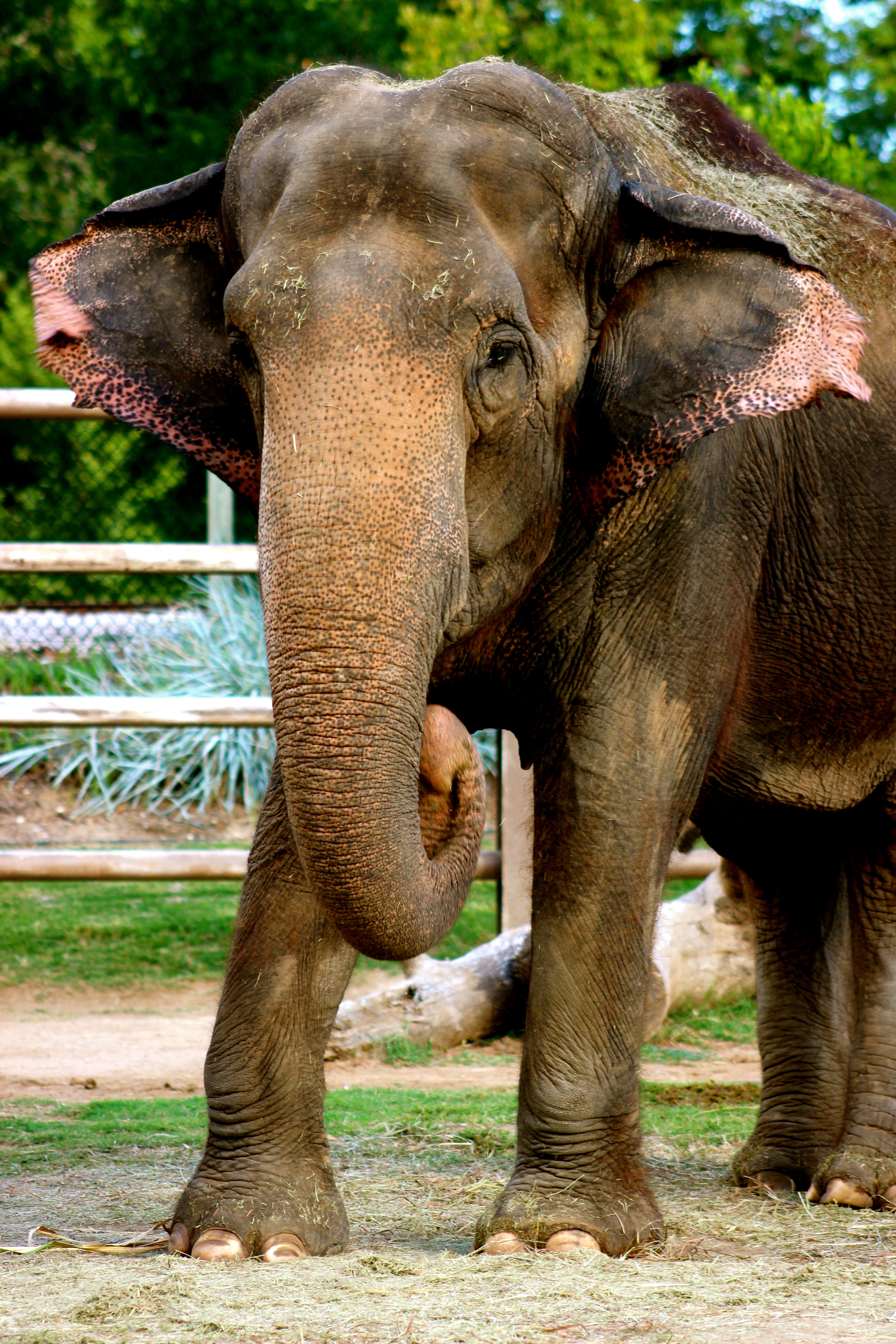 Gunda, who arrived at the Tulsa Zoo in 1954 has surpassed all staff and animals at the age of 64.